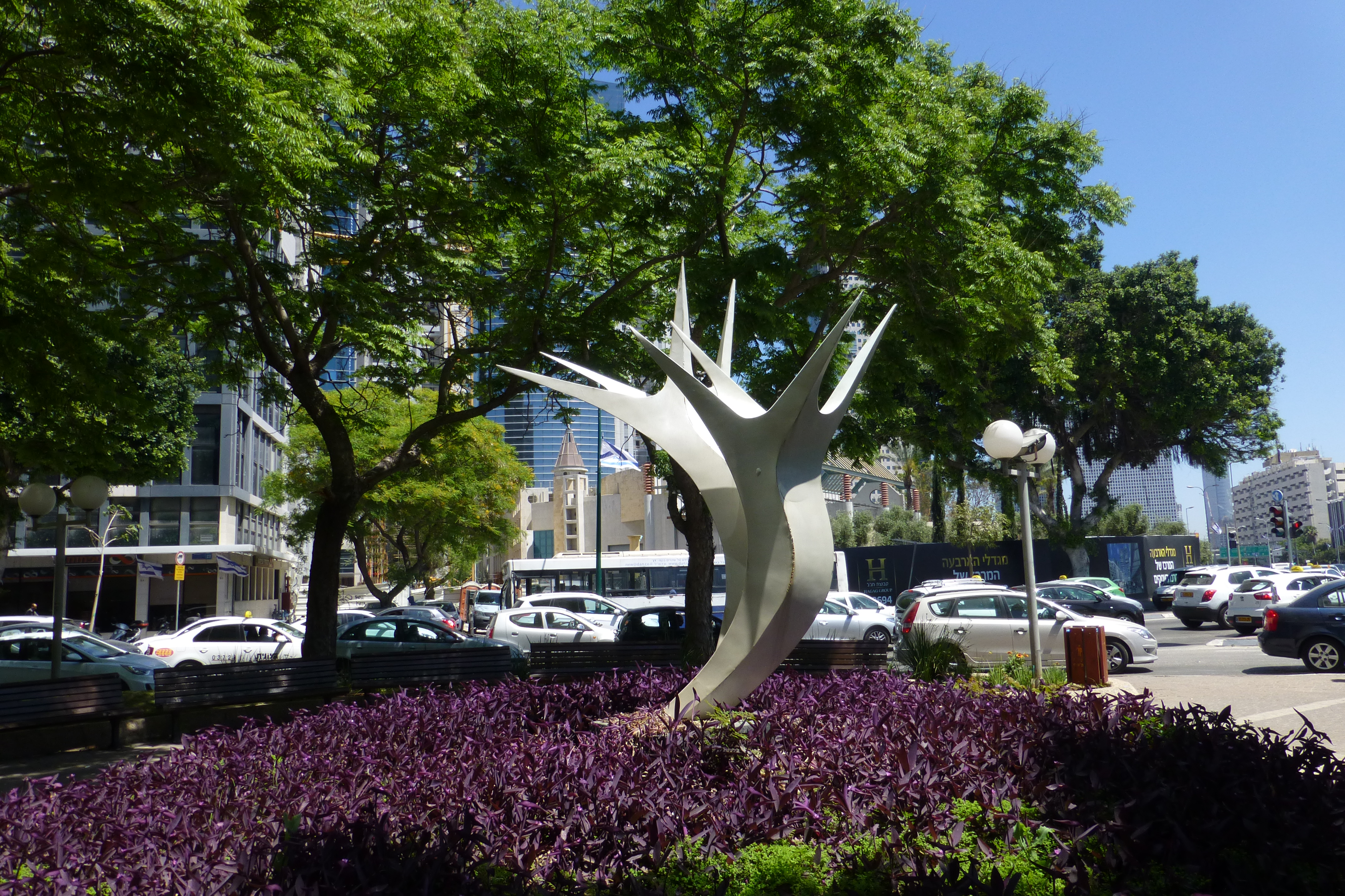 Begin Road, Tel Aviv-Yafo